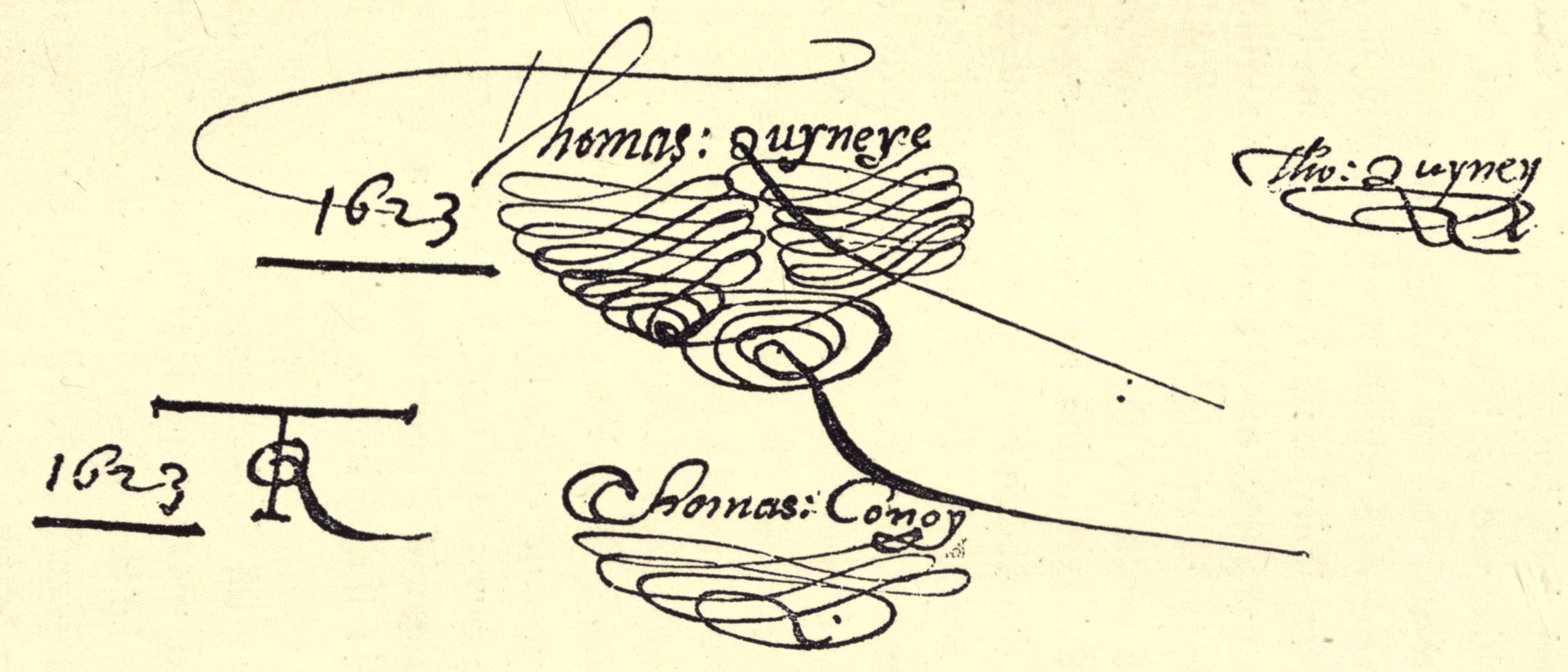 Facsimile of Thomas Quiney's signature “with a flourish” on his accounts as Chamberlain of the Corporation of Stratford-upon-Avon for 1622-3.